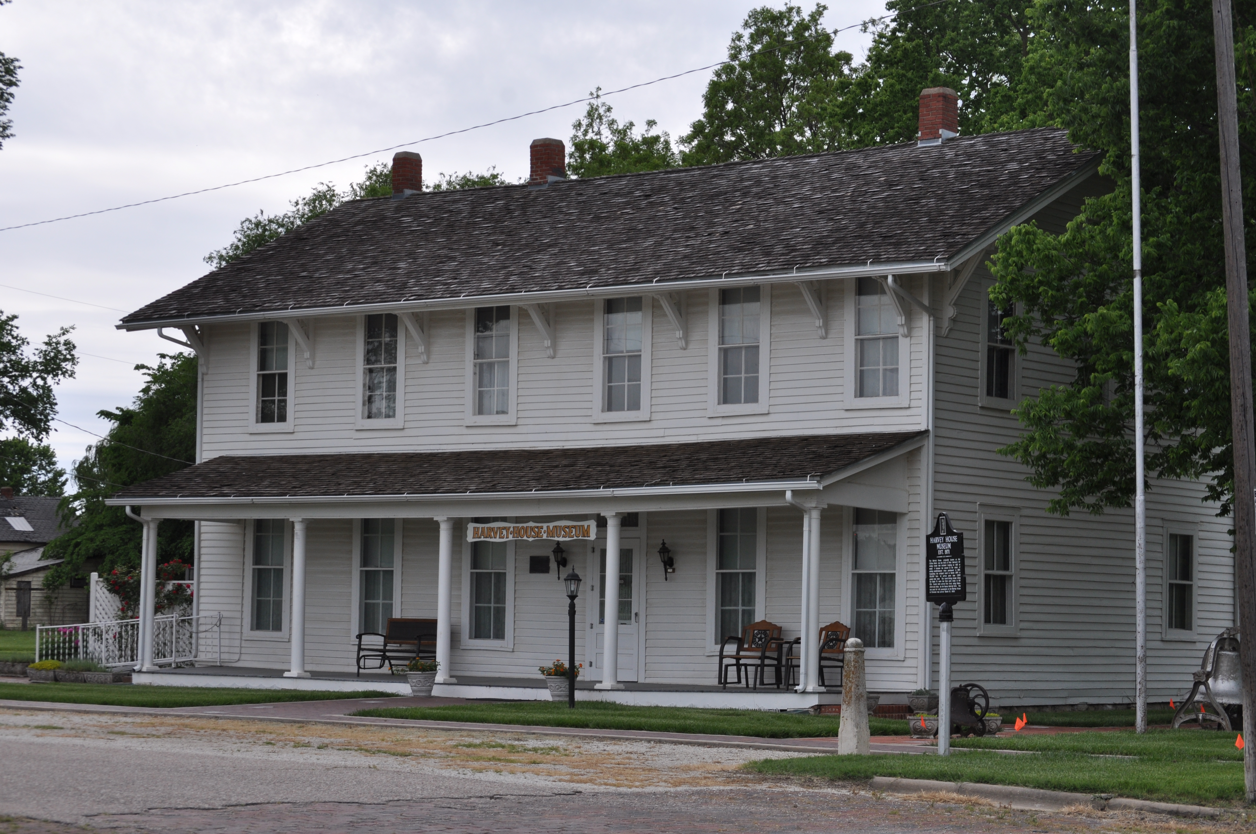 Harvey House restaurant and hotel in Florence, Kansas